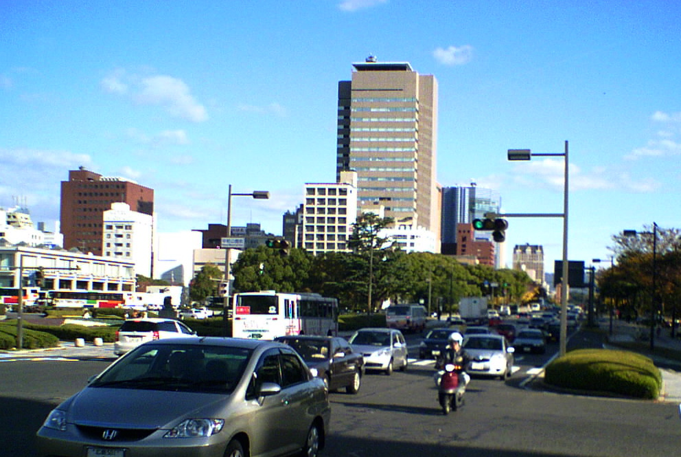 the Skyline of Hiroshima